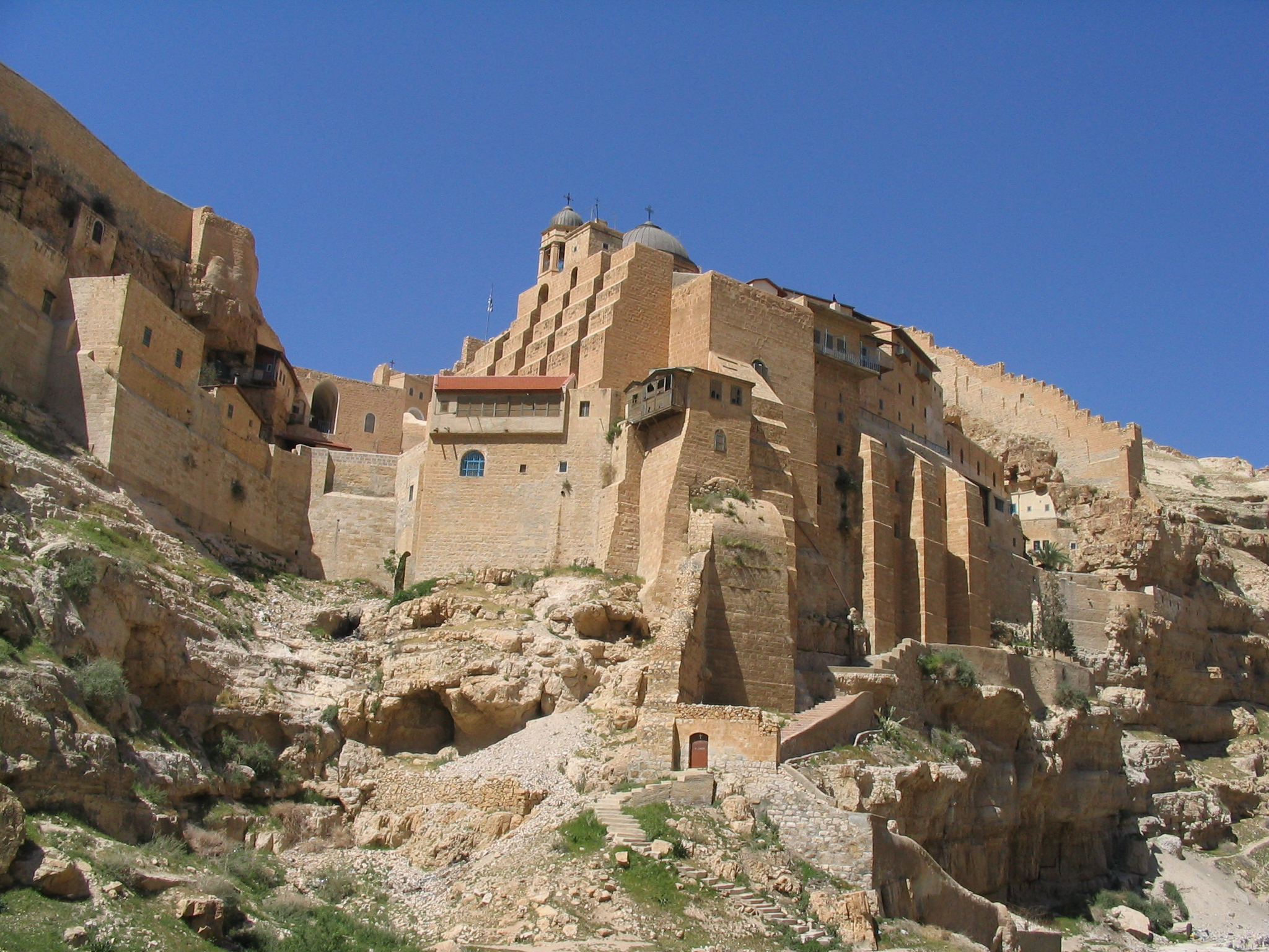 Mar Saba is a Greek Orthodox monastery located near Bethlehem, in the Israeli-occupied West Bank and overlooks the Kidron River